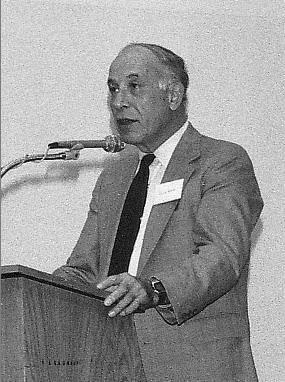 Philip J. Klass at the 1983 CSICOP Conference in Buffalo, NY